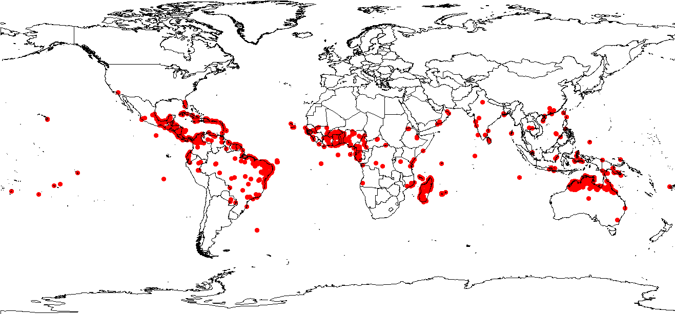 Crotalaria retusa (05 June 2018) GBIF Occurrence Download Crotalaria retusa L.